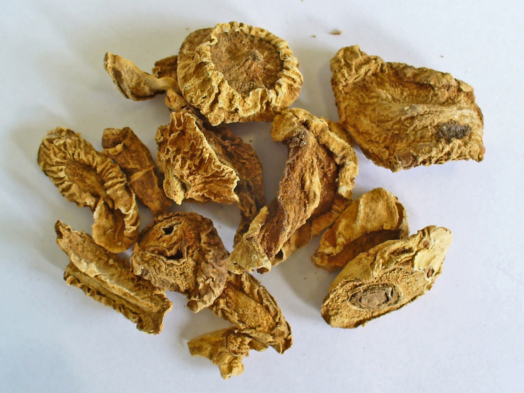 Harpagophytum procumbens, Pedaliaceae, chopped up, dried storageroots. The thick, edgewise storageroots chopped up before drying are used in homeopathy as remedy: Harpagophytum procumbens (Harp.)